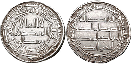 ISLAMIC, 'Abbasid Revolution. Partisans of ‘Abd Allah ibn Mu’awiya. AR Dirham (25mm, 2.84 g, 9h). Jayy mint. Dated AH 129 (AD 746/7). Klat 270a; Album 206.1; ICV 362. EF, lightly toned, light scratches in fields. Rare.